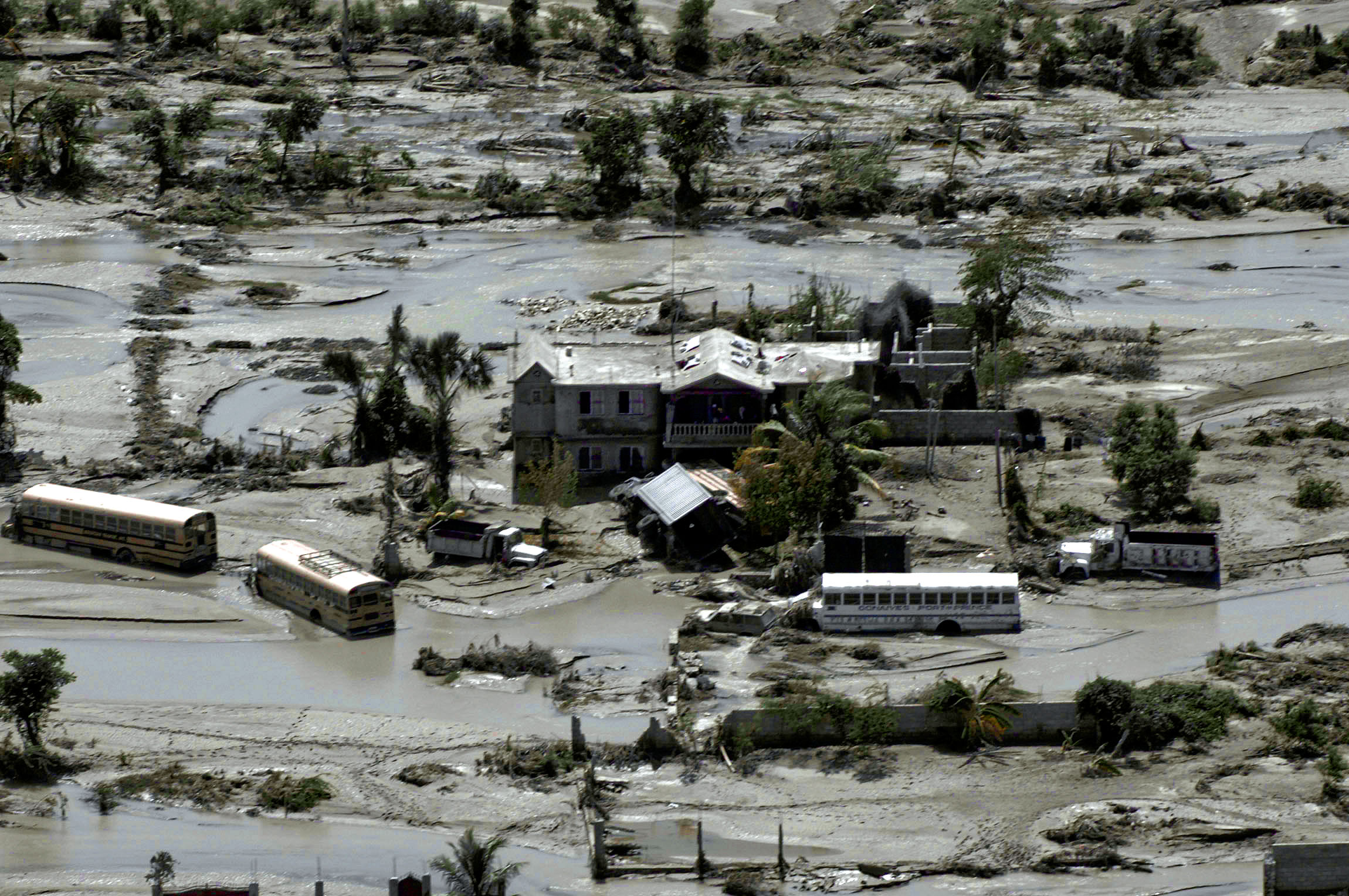 "An aerial view of a Haitian school in Port-Au-Prince that was damaged by recent hurricanes." (Apparently mislabeled as "Sept. 15, 2009" instead of 2008.)